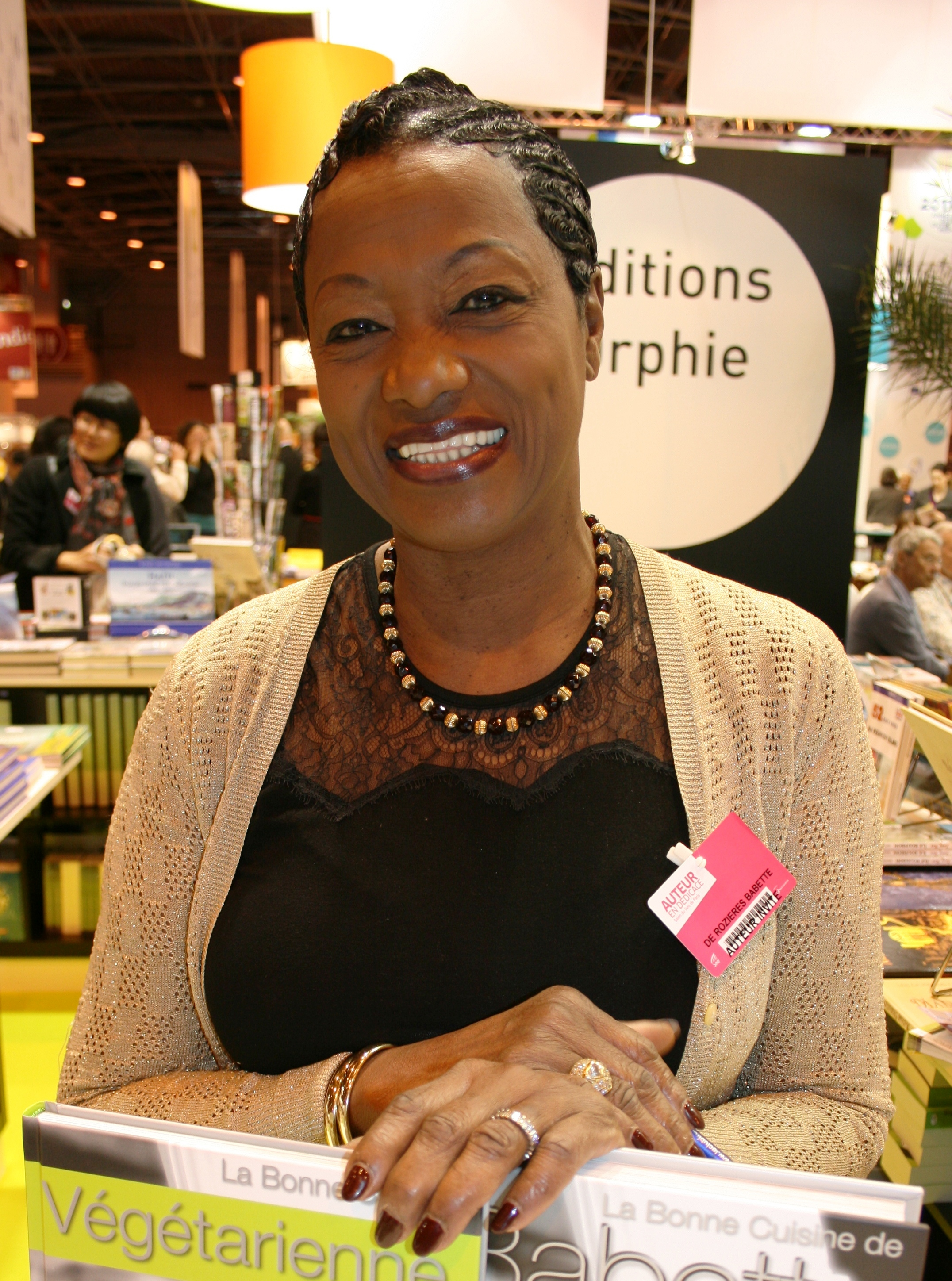 The French cook Babette de Rozières at the 2011 Paris Book Fair.